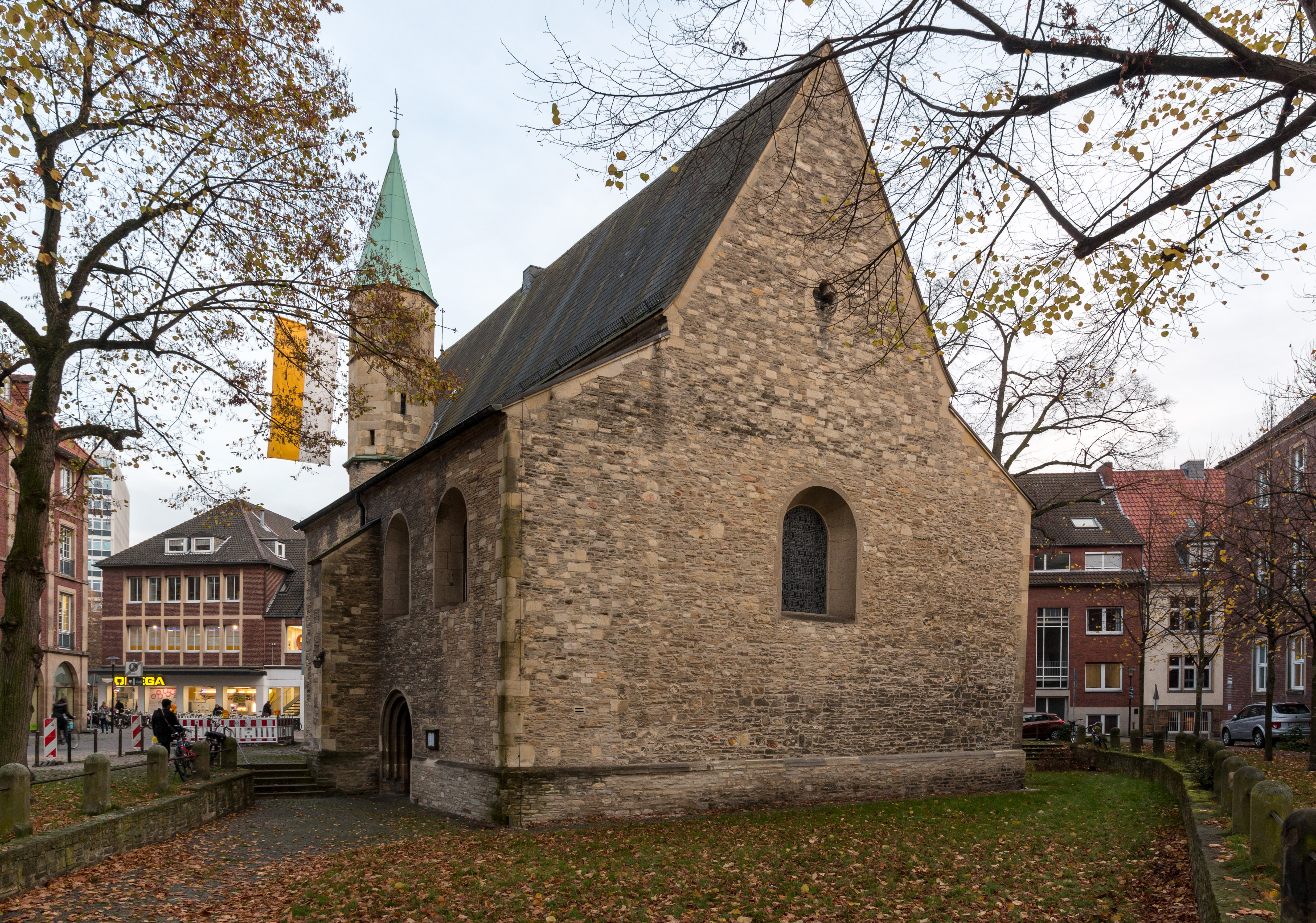 Servatii Church, Münster, North Rhine-Westphalia, Germany This image shows a heritage building in Germany, located in the North Rhine-Westphalian city Münster.